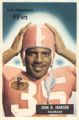 National Football League player John Henry Johnson on a 1955 Bowman Gum football trading card with the San Francisco 49ers